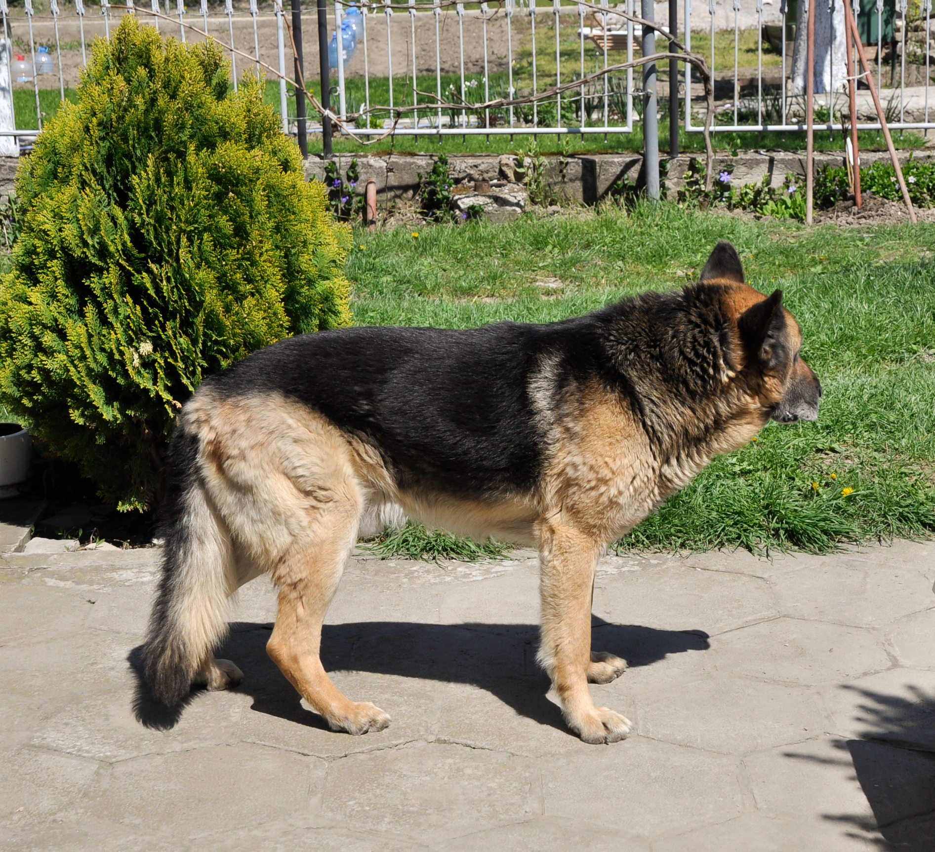 German Shepherd Dog found in Targovishte, Bulgaria.